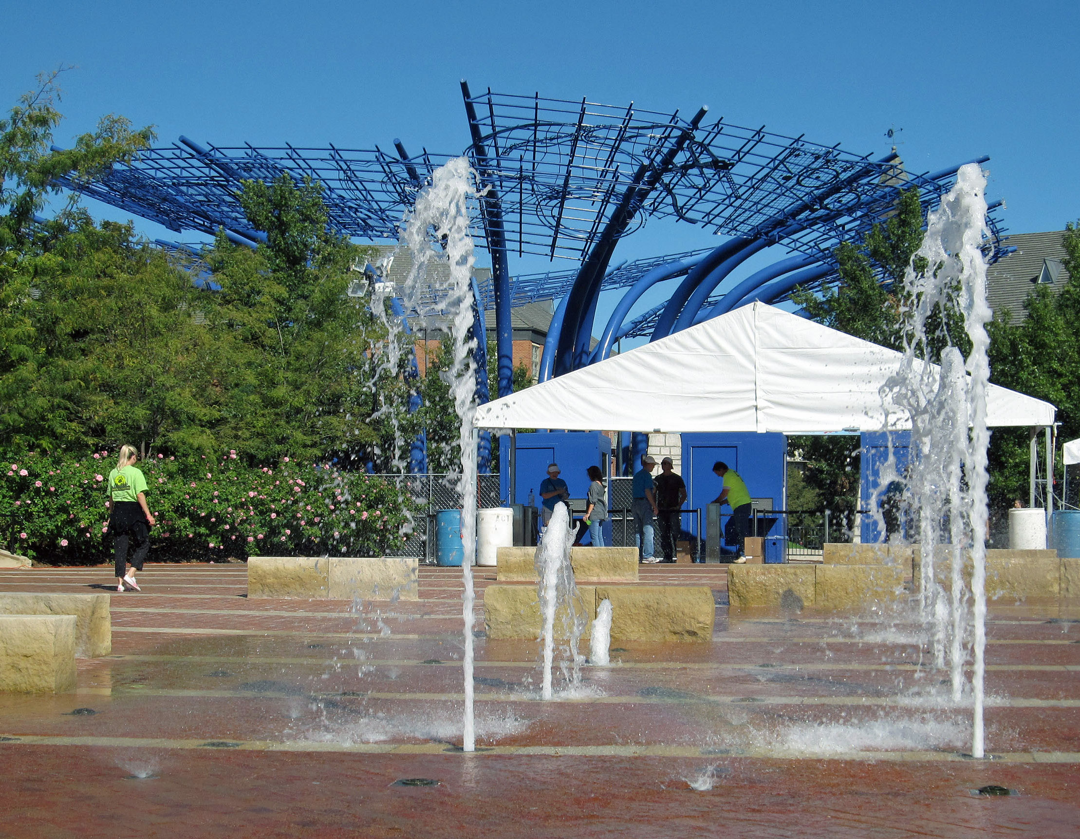 Addison Circle fountains